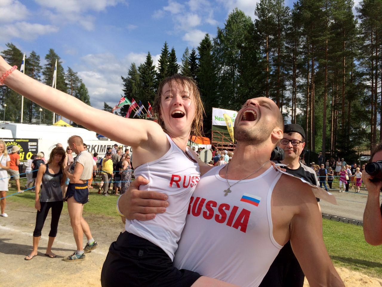 The Russians won in The Wife Carrying World Championships